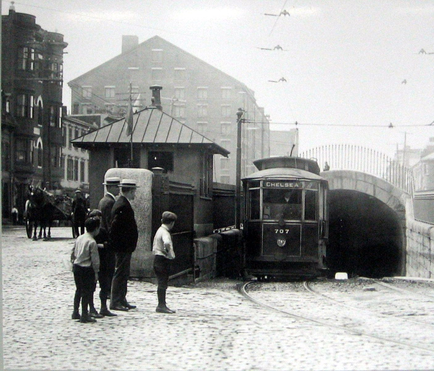 A Chelsea-bound streetcar emerges from the East Boston Tunnel at Maverick Square